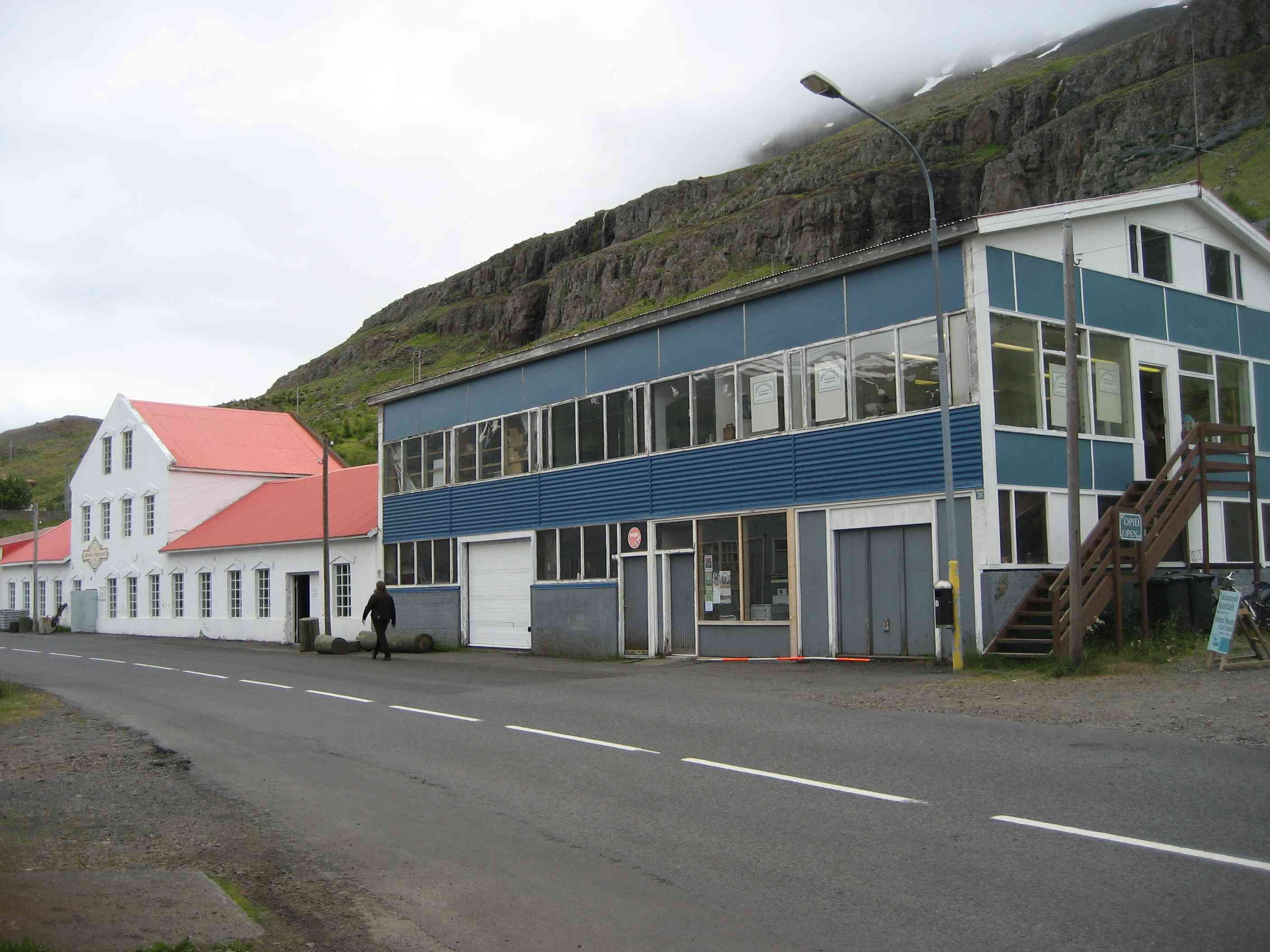 The Taeniminjasafn Austurlands Museum in Seydisfjordur, Iceland